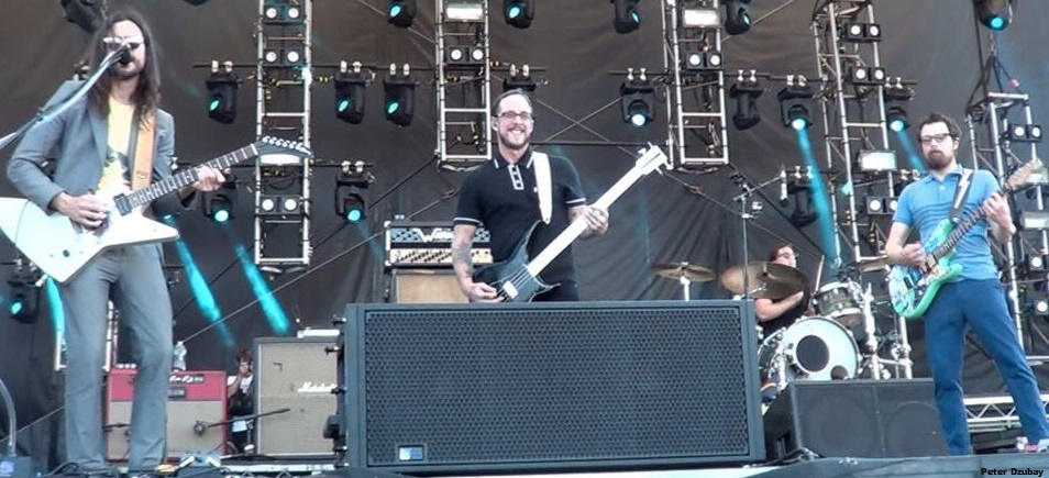 Weezer performing in 2015 at the Gathering of the Vibes in Bridgeport, Connecticut. From left to rightː Brian Bell, Scott Shriner, Patrick Wilson, and Rivers Cuomo. PHOTO BY PETER DZUBAY